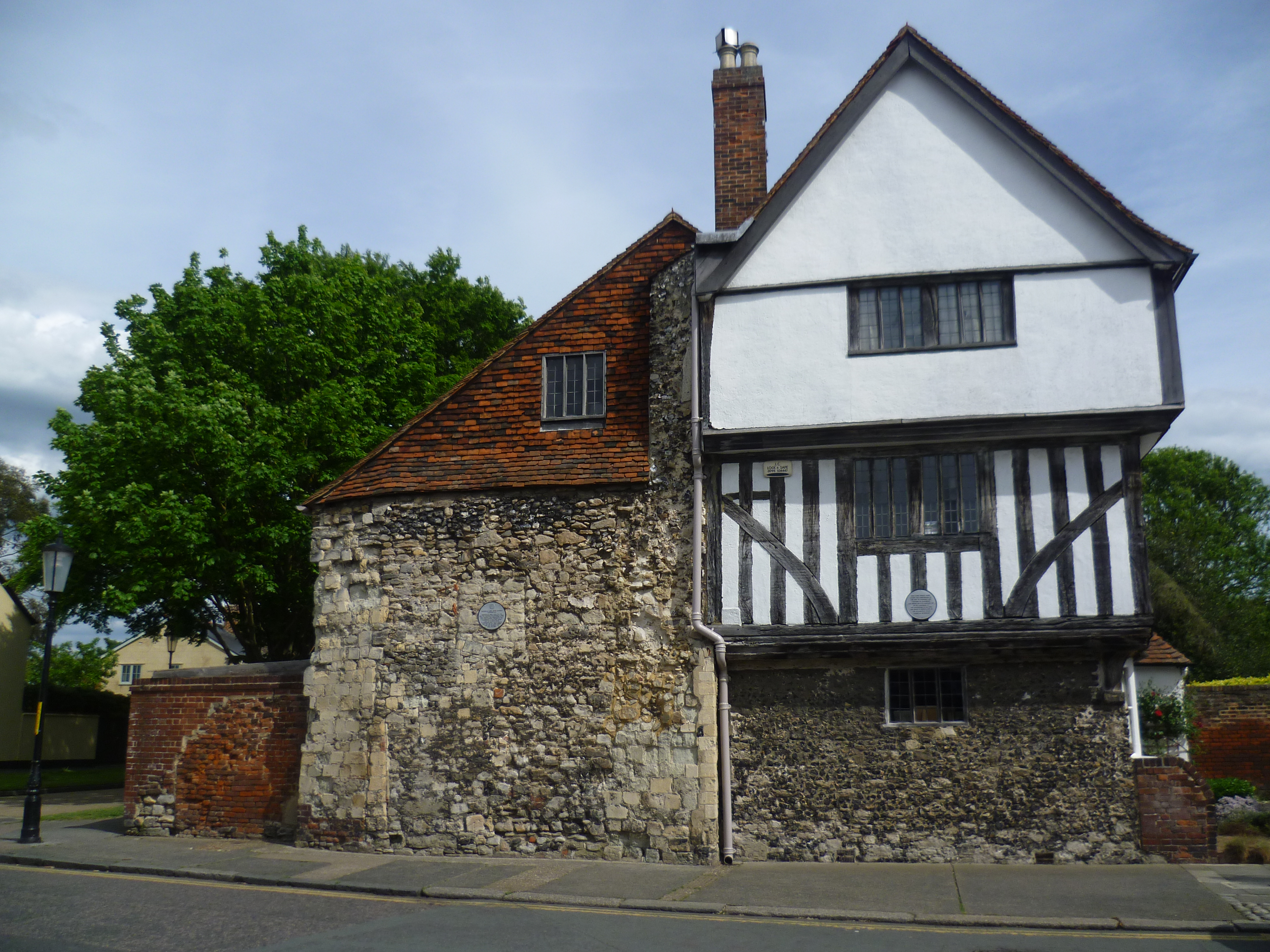 Arden's House, Faversham, Kent, England. Faversham Abbey was founded in 1147 by King Stephen who was buried there. The Abbey was dissolved in 1538 and ever since the mystery exists as to what happened to the remains of King Stephen. Part of the Abbey wall can be seen on the left. Arden's House was the Guest-house of the former Faversham Abbey where prominent visitors like Cardinal Wolsey stayed. In 1540 it was bought by Thomas Arden who worked in the Government office which was selling off monastic property. Later he acquired more monastic property. Obsessed with money-making he neglected his wife Alice, who found solace elsewhere. In 1551 at her instigation Arden was murdered in his own home. Alice and her lover were among those executed for the crime, which inspired the play Arden of Faversham, first published in 1592 and still performed today. It is occasionally performed in the garden of Arden's House, which is a rare example of an Elizabethan play which can be performed in its actual setting.